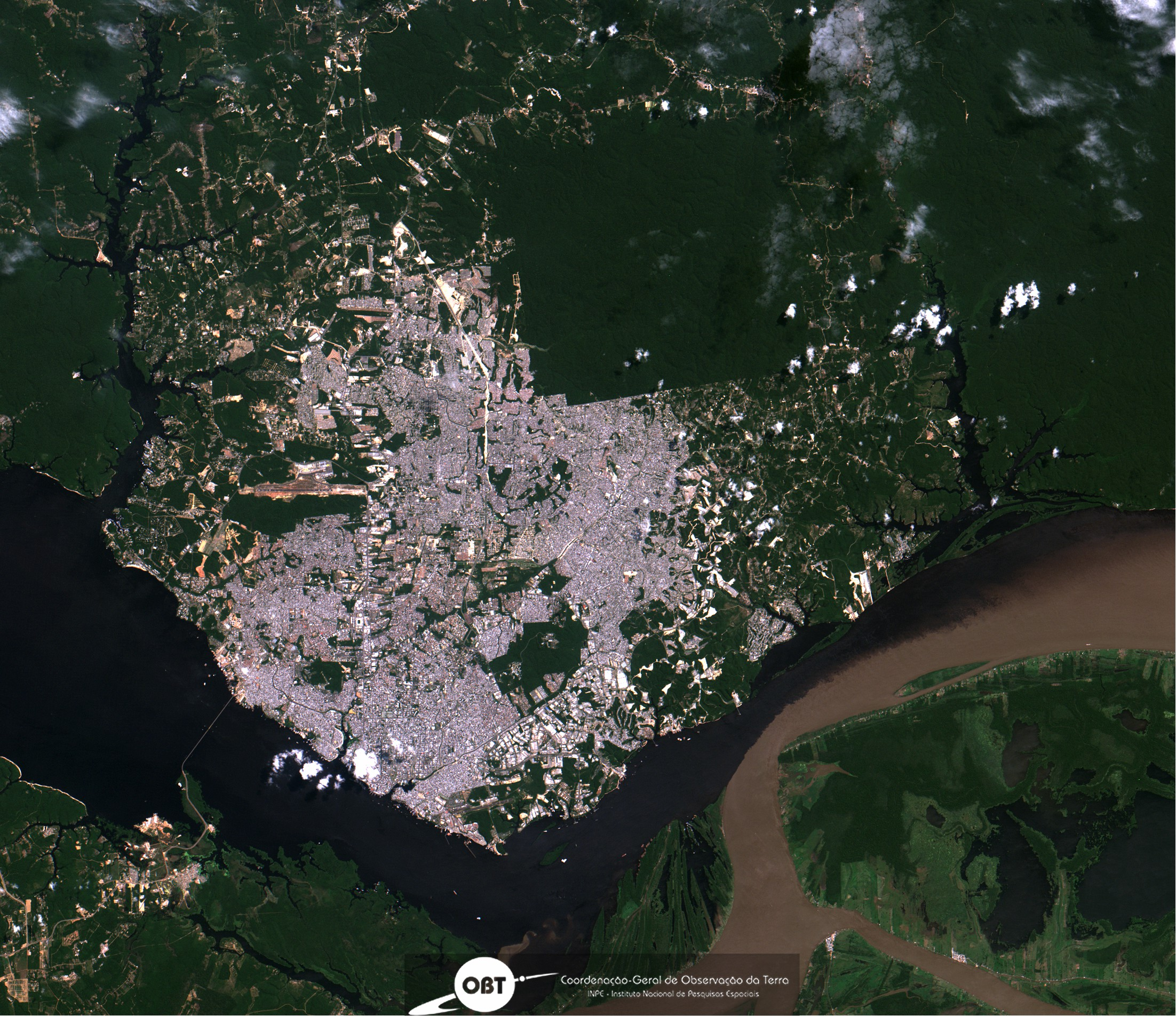 Satélite / Satellite: CBERS-4 Sensor: MUX Data / Date: 31-07-2016 / 07-31-2016 Bandas / Bands: R7-G6-B5 Onde / Where: Manaus, Capital Amazonas / Manaus, Capital City of Amazonas Cena / Scene: CBERS-4 173/103, 173/104 Acesso à imagem / Image access (TIFF - 12 Mb)